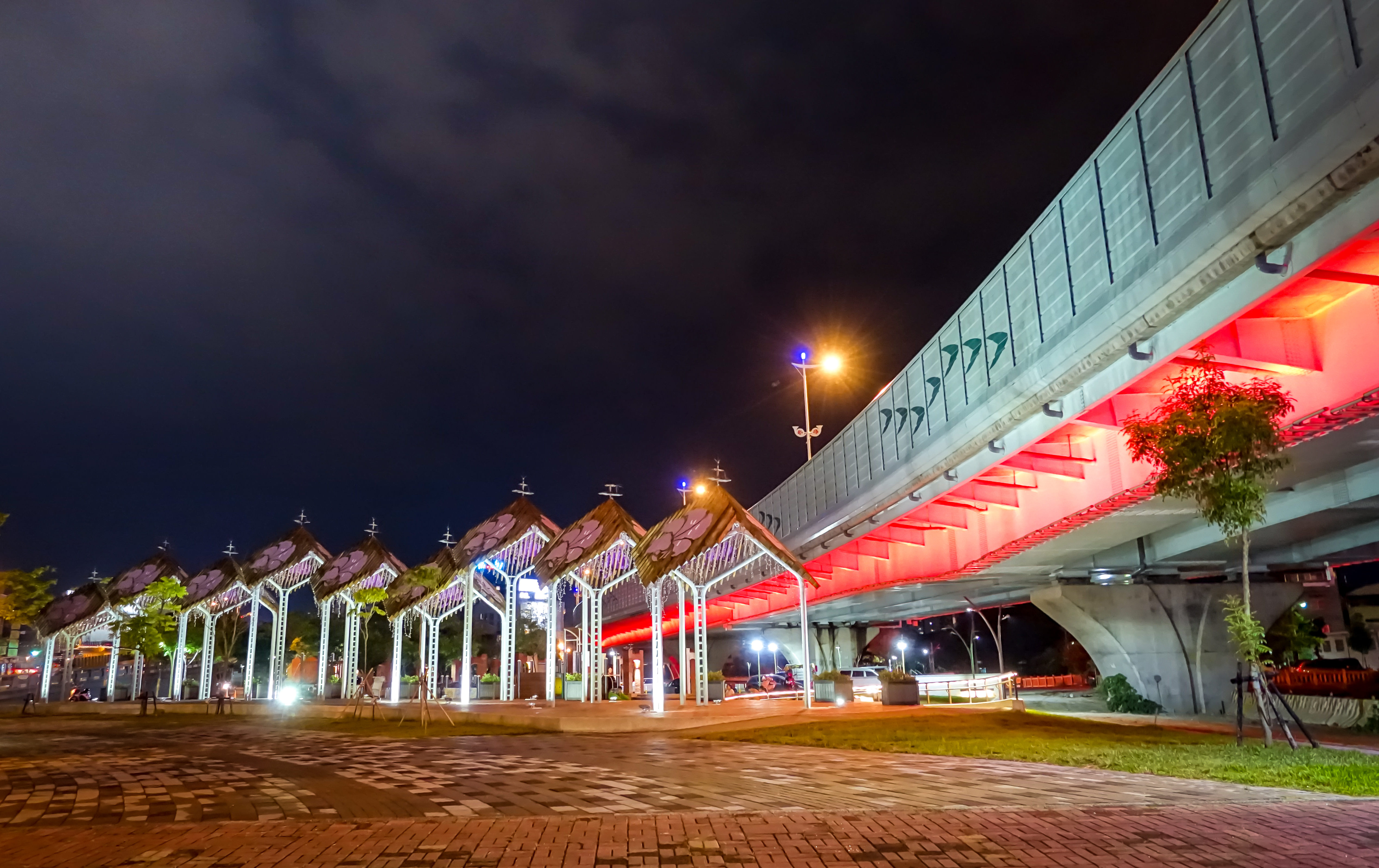 Chuiyang Overpass and Fanzigou Park at night, Chiayi City, Taiwan.